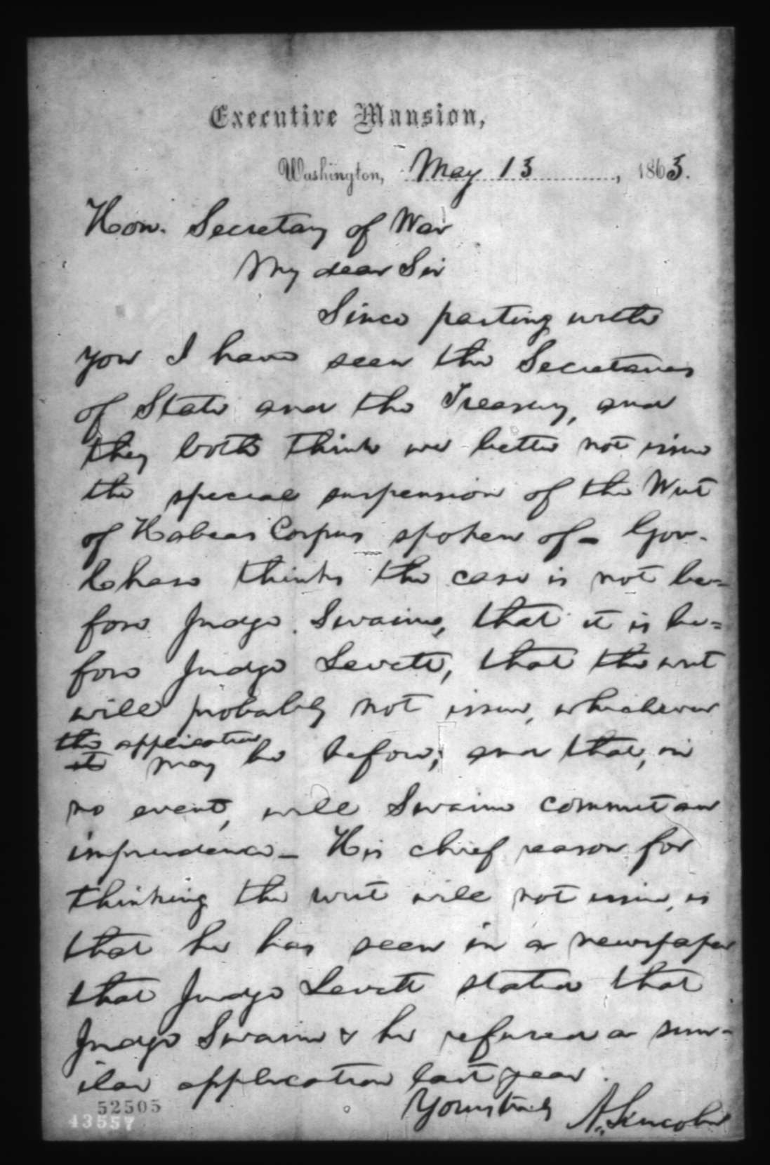 Letter from President Abraham Lincoln to United States Secretary of War Edward Stanton, referencing the suspension of habeas corpus case involving Judge Humphrey Howe Leavitt of Ohio.